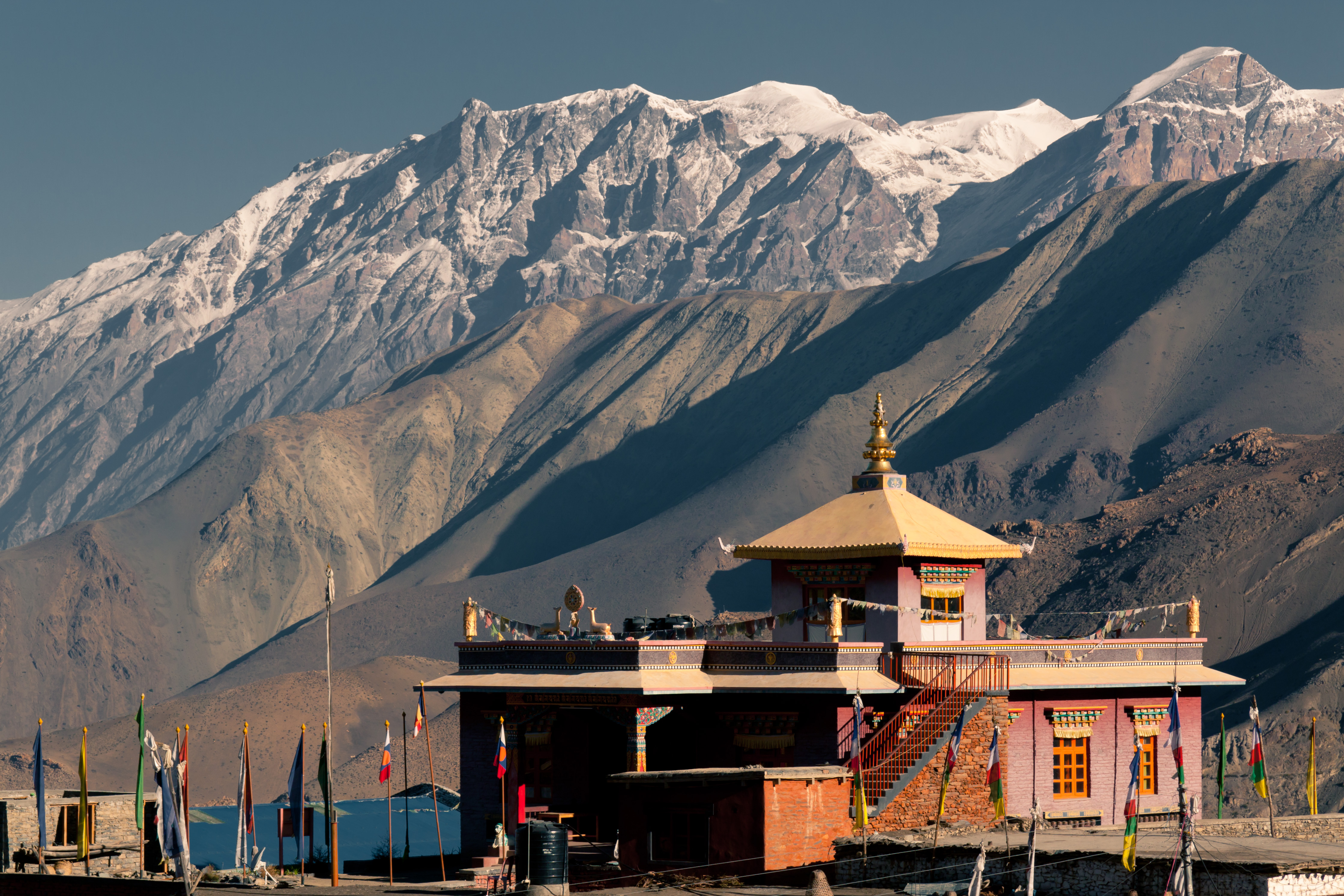 Muktinath temple